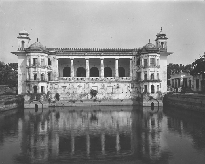 Photograph taken by Fritz Kapp in 1904 with a view of the Imambara Hussaini Dalan in Dacca (now Dhaka), overlooking the tank, part of an album of 30 prints from the Curzon Collection.